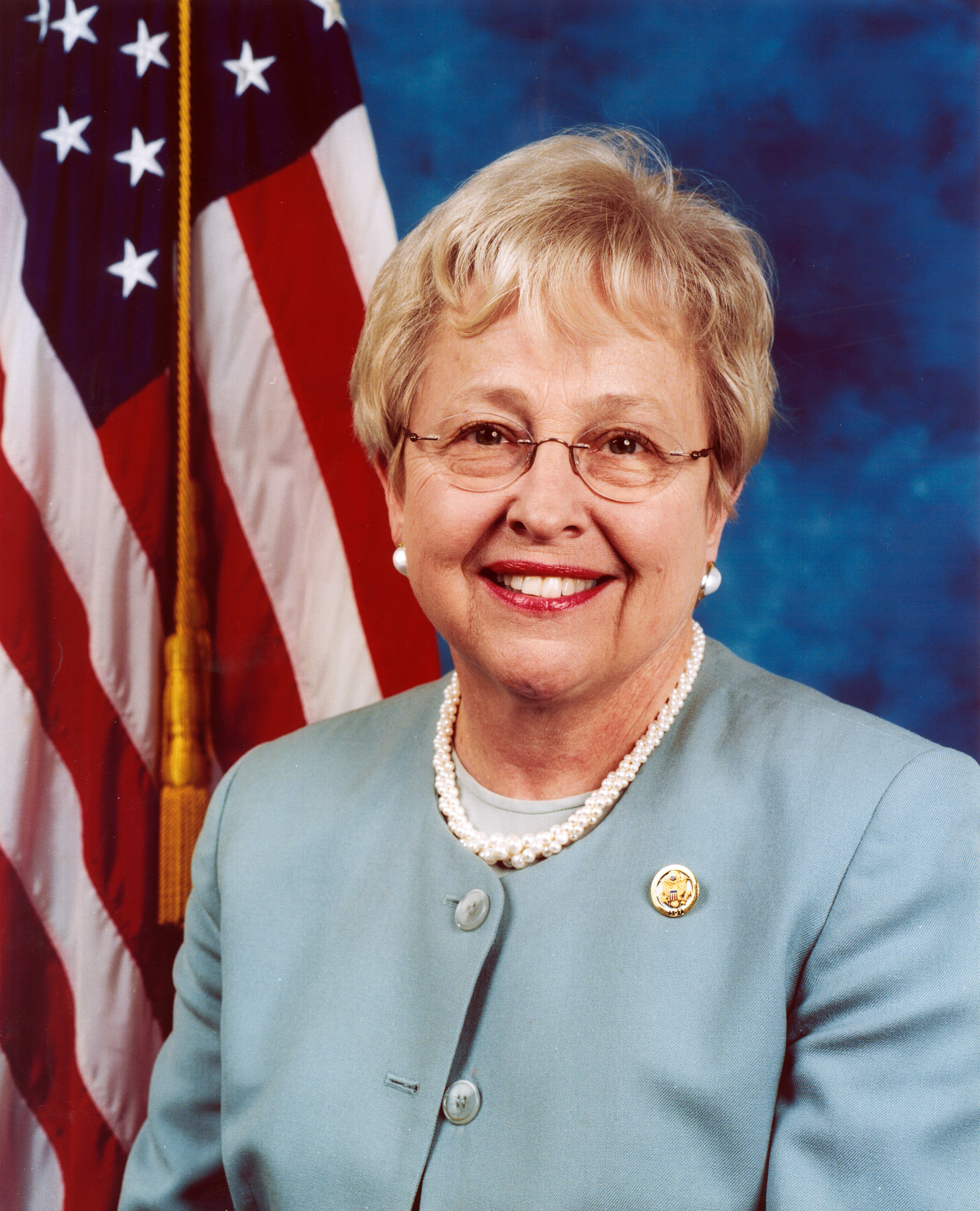 Source: Official US Government press photograph, from Johnson's Website at US